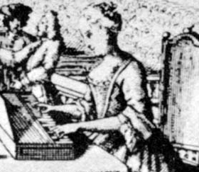 Close-up of title page to the first volume of Singende Müse an der Pleisse, a collection of strophic songs published in Leipzig in 1736, by "Sperontes", Johann Sigismund Scholze. Art historian and Bach portrait expert Teri Noel Towe believes there is a chance that the two people shown may be Bach and his wife Anna Magdalena: archive link